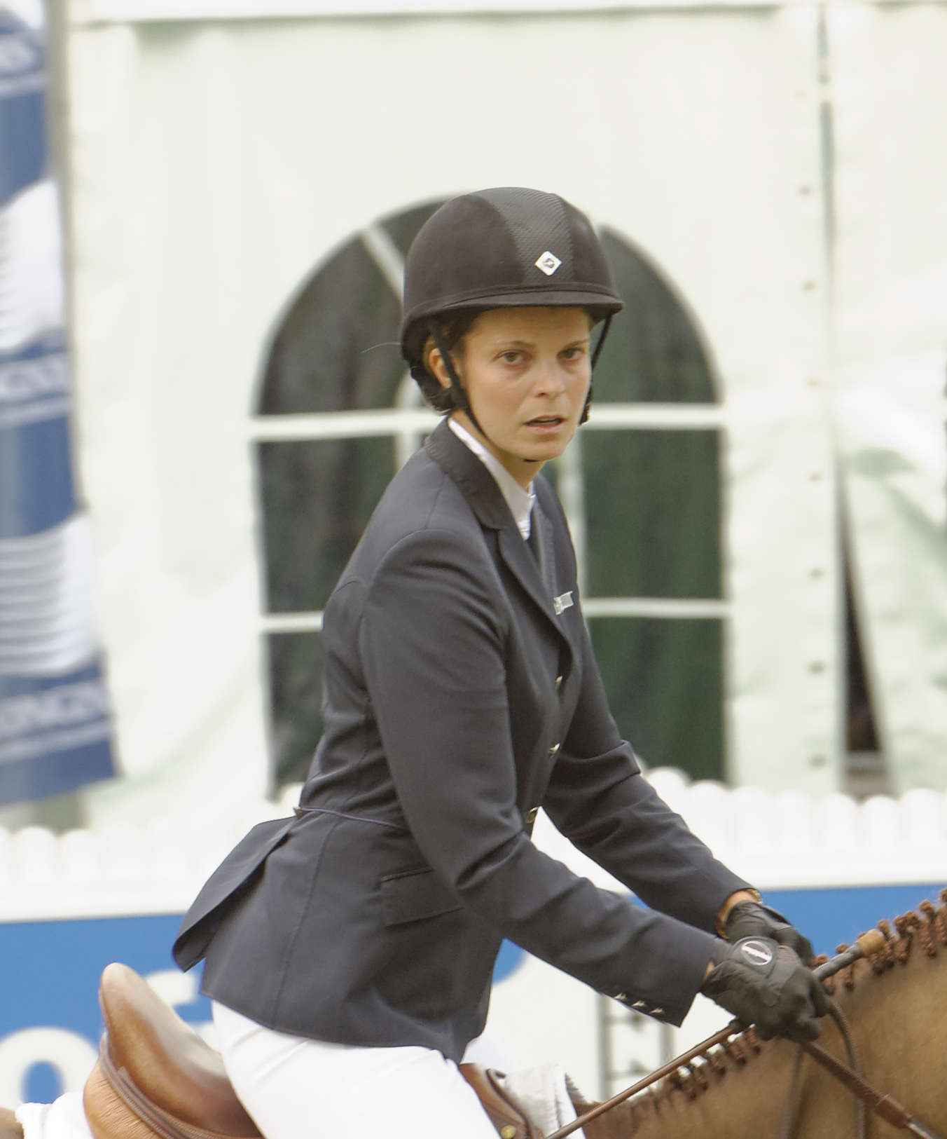 Internationales Pfingstturnier Wiesbaden 2013: Athina Onassis de Miranda mit Babouche The making of this document was supported by the Community-Budget of Wikimedia Germany.